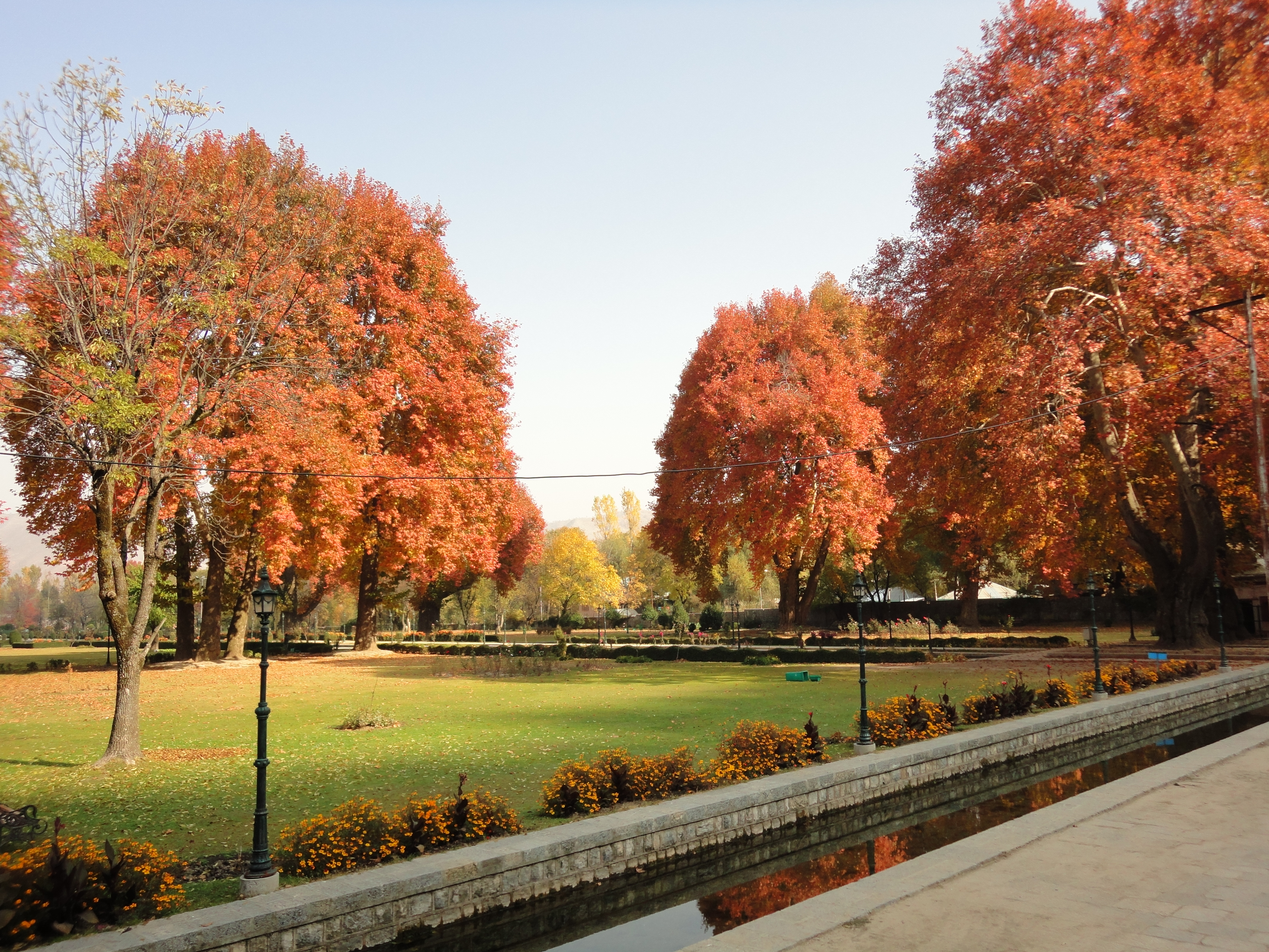 Mughal Arcad and Spjring at Verinag